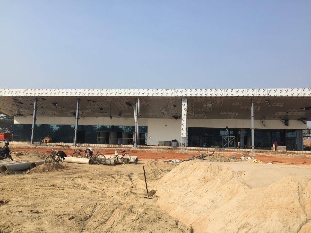 Front view of the under-construction Porta-Cabin at Darbhanga Airport.